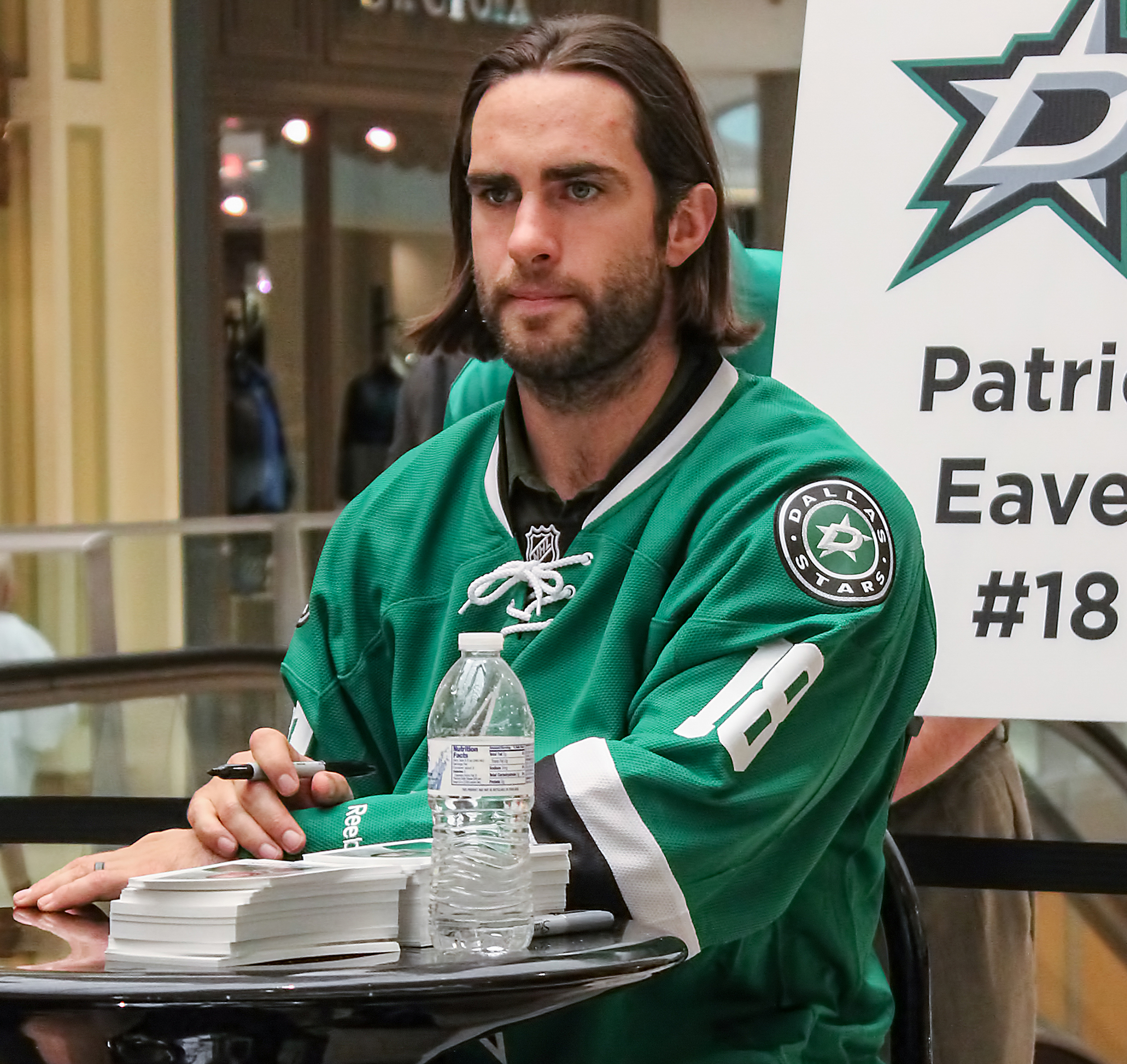 Dallas Stars Ice Breaker 2014 Sept 13, 2014 Galleria Dallas